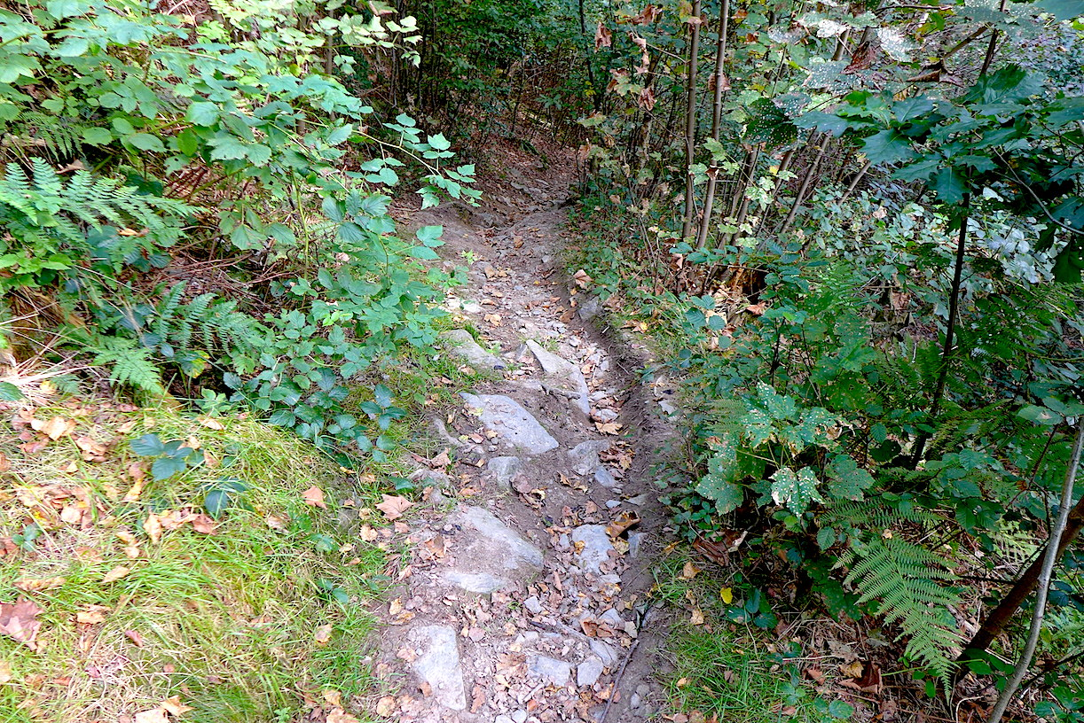 "Blade track" - the tourist marked route around the German city of Solingen (Northern Rhine-Westphalia). Third stage: Around the fortress of Schloss Burg and through the valley of a stream Esch. 8,1 km.